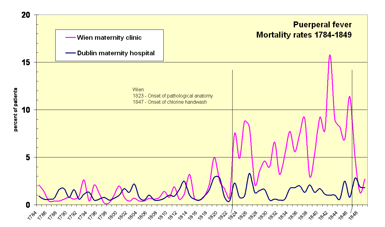 Yearly puerperal fever mortality rates 1784-1849 in Wien and Dublin. Semmelweis seeks to demonstrate that the advent of pathological anatomy in Wien in 1823, and consequently the increase in number of conducted autopsies, is correlated to the incidence of fatal childbed fever.